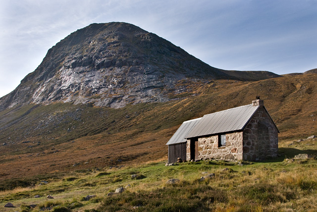 Corrour Bothy Corrour Bothy sits below the wet slabs on the Devil's Point. The wooden extension is a recent addition. It contains a composting toilet. The bothy was originally built in the 19th century as a deer watchers hut. There were a number of these huts on the estate. Gamekeepers stayed in them at certain times of the year so that they could tell where the deer were likely to be for stalking purposes. They also had to prevent walkers and travellers from disturbing the deer and prevent them from straying between the deer and the rifle. (The Dee from the Far Cairngorms - Ian Murray - 1999)